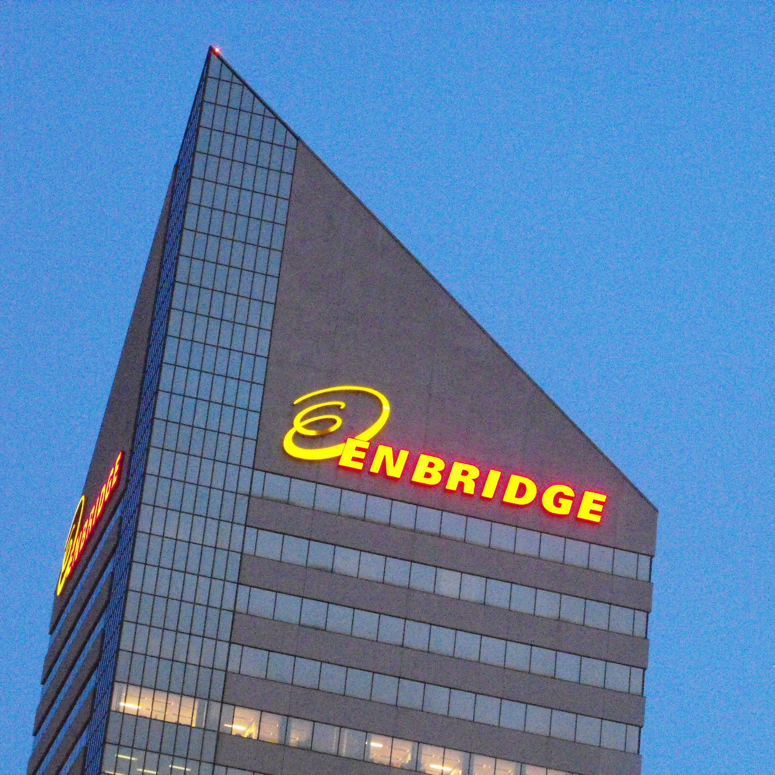 Enbridge Building, downtown Edmonton, Alberta, photographed at dusk.